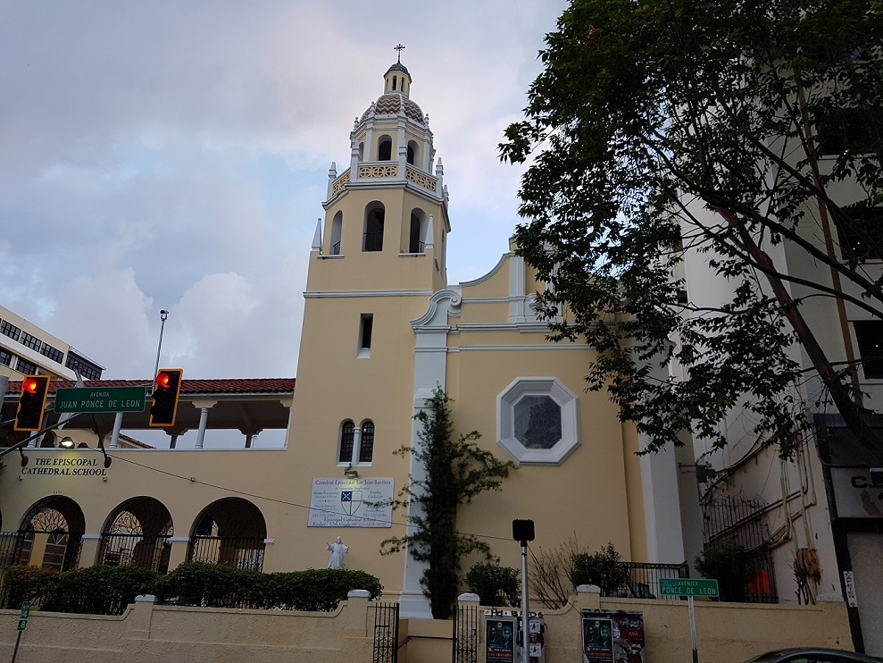 Front View